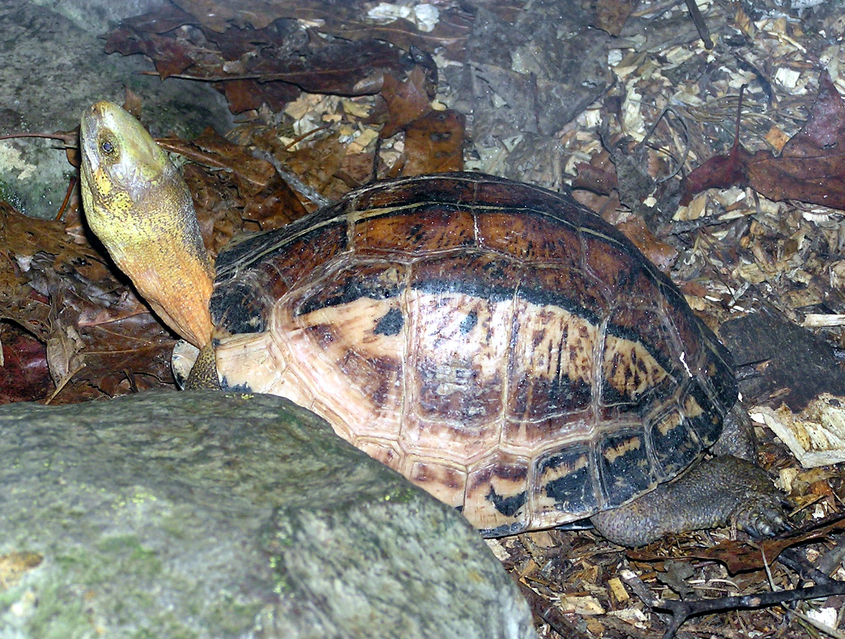 Indo-Chinese box turtle Cuora galbinifrons at Bristol Zoo, England. Photographed by Adrian Pingstone in December 2005 and released to the public domain. :Southern Vietnamese Box Turtle Cuora (galbinifrons) picturata according to here.